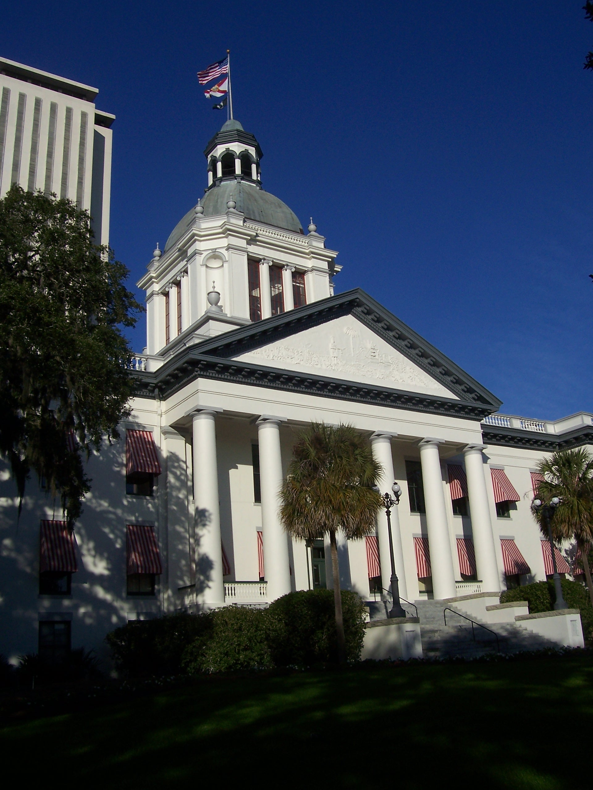 The old Florida Capitol Building with the new building in the top-left background. The old building currently serves as a museum.